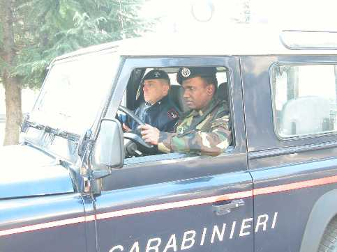 driving test coespu